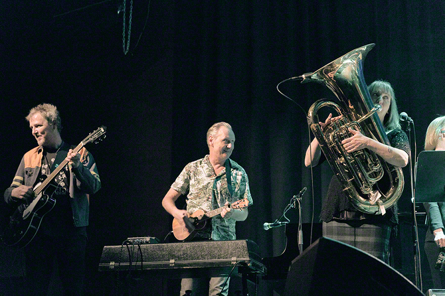 Baard Slagsvold Bitten Forsudd performs with Lars Bjerkmann at Cosmopolite in Oslo on 5.3.16. Lineup:Jørgen Gaardvik (drums)Magnus Larsen jr (bass)Baard Slagsvold (piano / ukulele)Arne Sæther (hammond organ)Bitten Forsudd (tuba / choir)Mona Mauseth Evensen (choir)Ingrid Pedersen (choir)Andreas Løvold (trumpet)Mathias Hole (trombone)Michael Strütt (tenor saxophone)